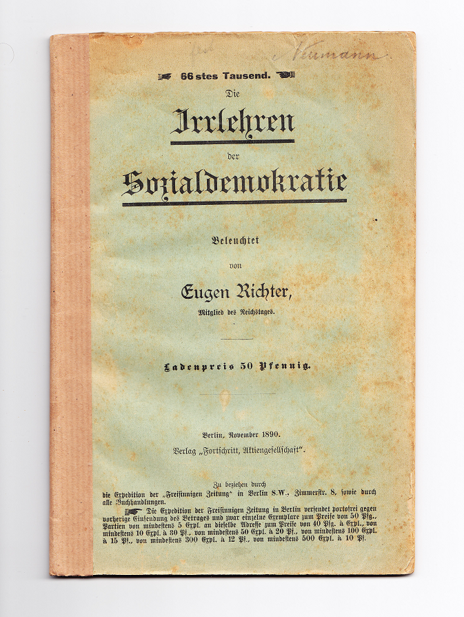 Title page of Eugen Richter's "Irrlehren der Sozialdemokratie" (The Fallacious Teachings of Social Democracy)